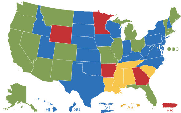 Map of minimum wages in the United States.